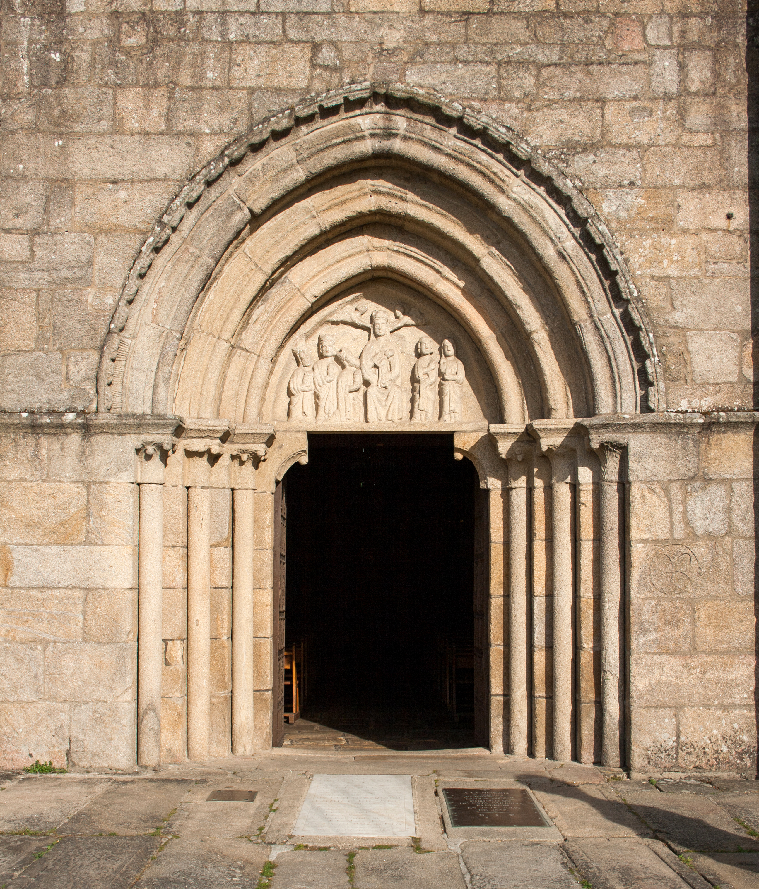 Portic of Saint Mary Church in Iria Flavia, Padrón, Galicia, Spain.